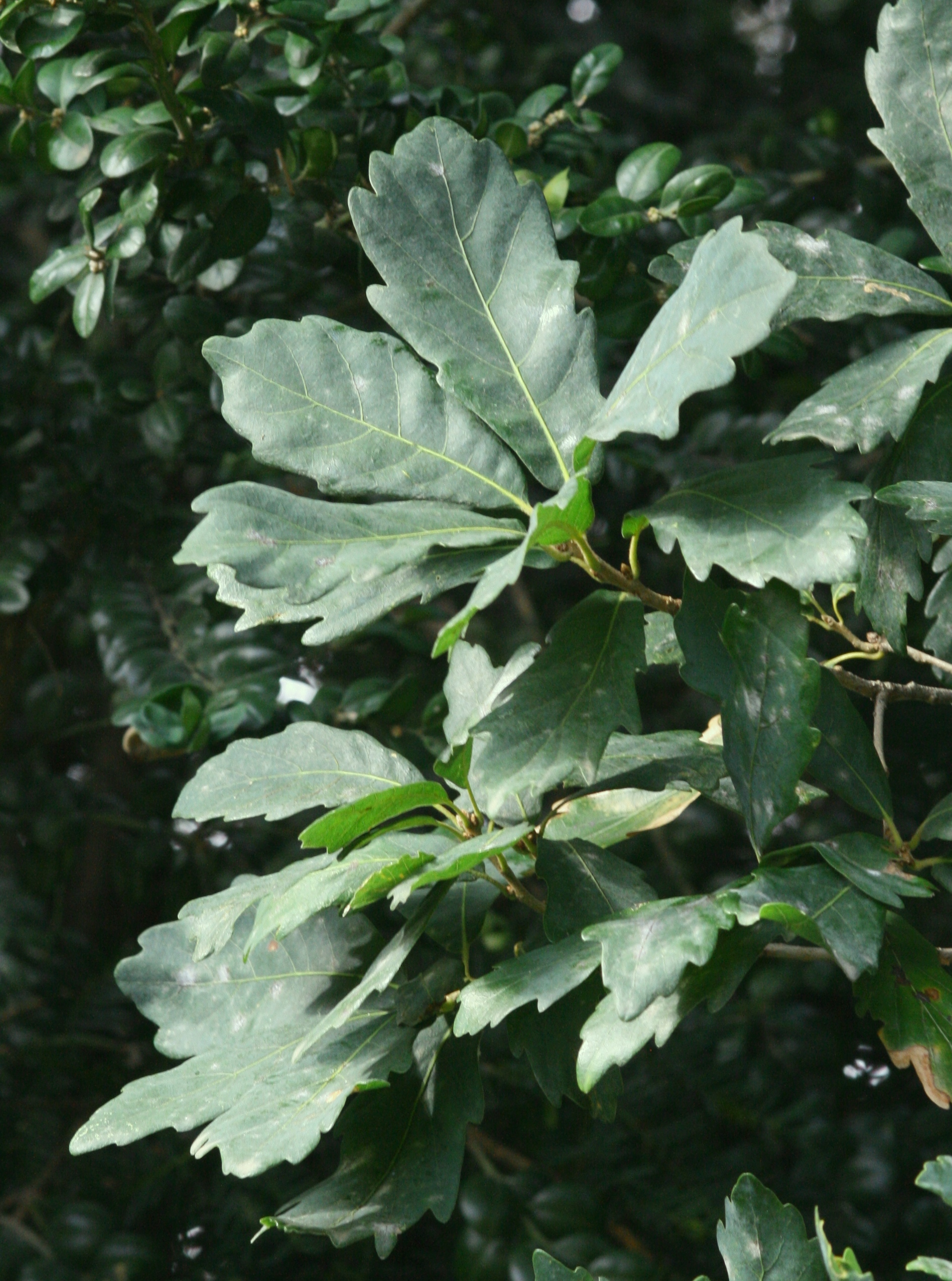 Quercus x turneri 'Pseudoturneri', Arboretum in Brno, Czech Republic